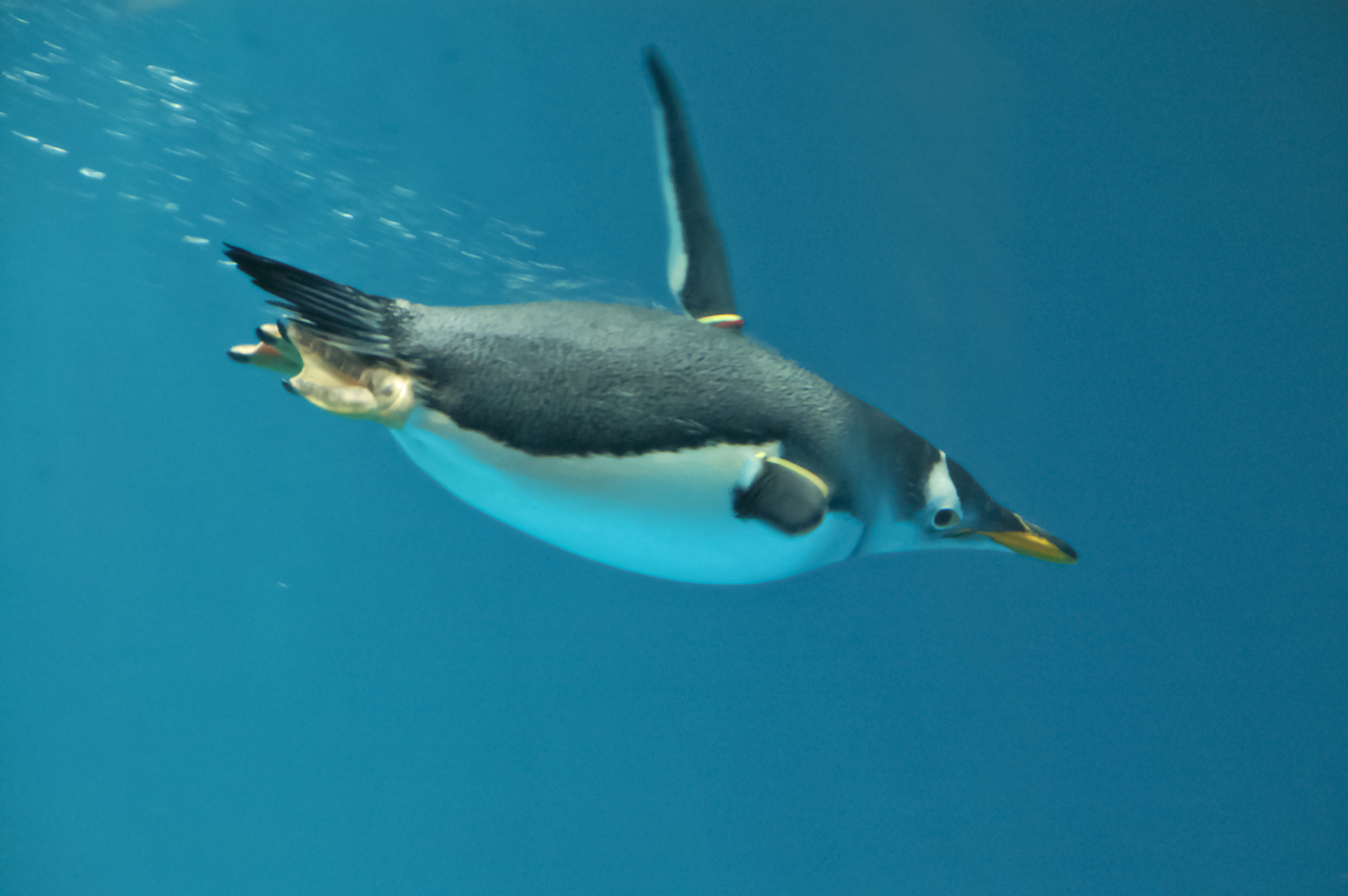 Gentoo Penguin swimming underwater at Nagasaki Penguin Aquarium, Nagasaki, Japan. It has got identification bands on its wings.